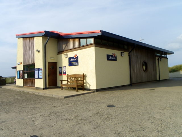 RNLI Station, Cardigan Bay, Data from Geograph: Description: Situated at Poppit Sands, Cardigan Bay, the two inshore lifeboats cover an area of beaches, secluded coves and towering cliffs. To date the crews have been presented with 15 awards for gallantry. ICBM: 52.104777922755, -4.6997777678528 Location: (about 2 km from) near to Gwbert, Ceredigion/Sir Ceredigion, Great Britain.